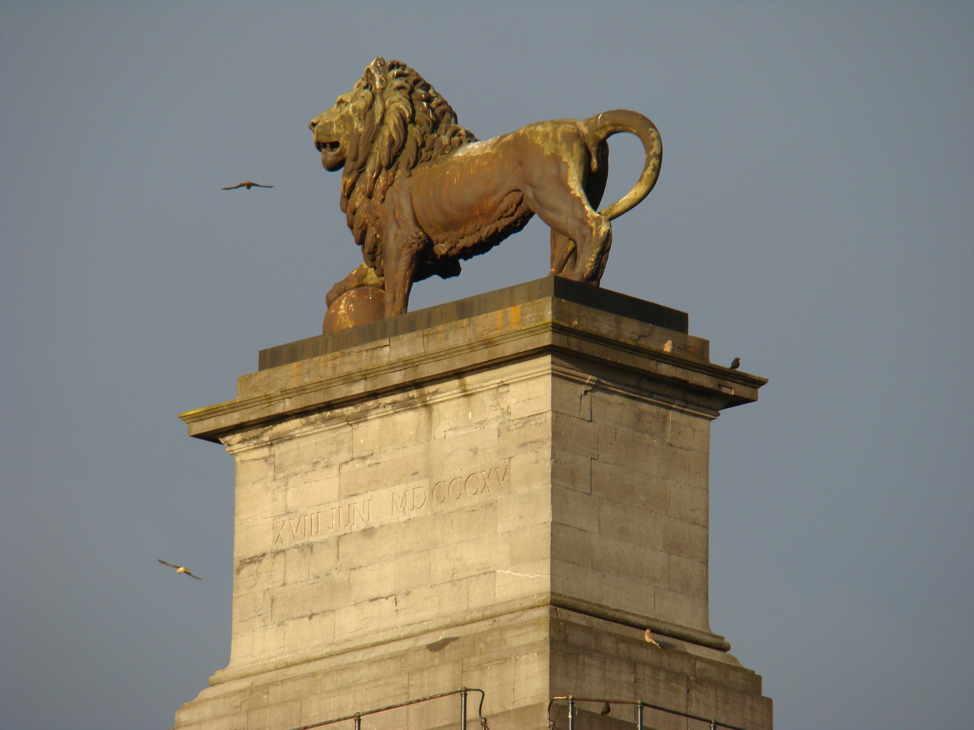 The lion of Waterloo, Waterloo (Walloon Brabant, Belgium)